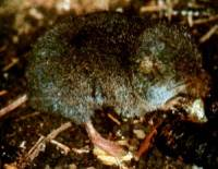 Smoky Shrew from USDA Forest Service